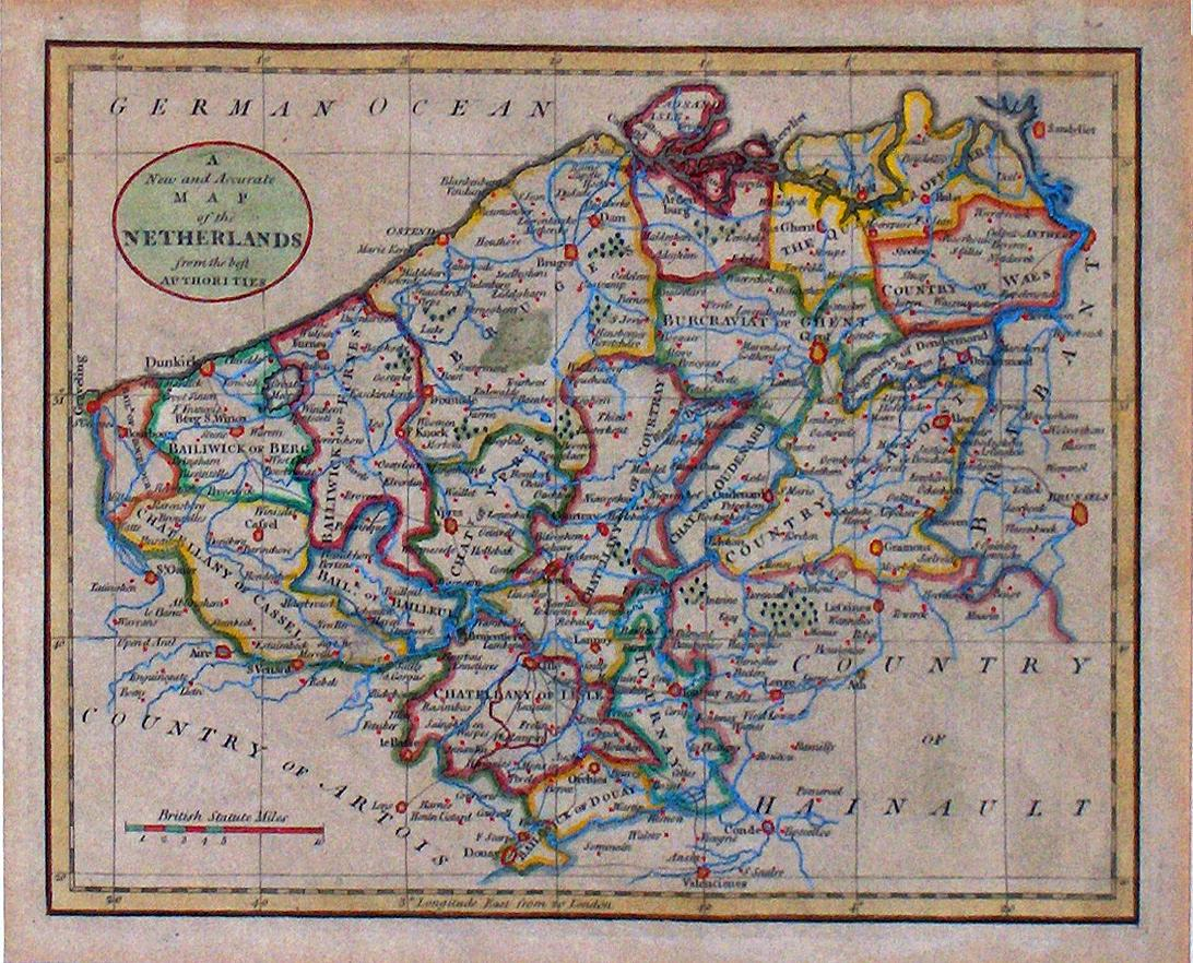 Map of the Southern Netherlands (Flanders) by anonymous artist (18 th century) private collection